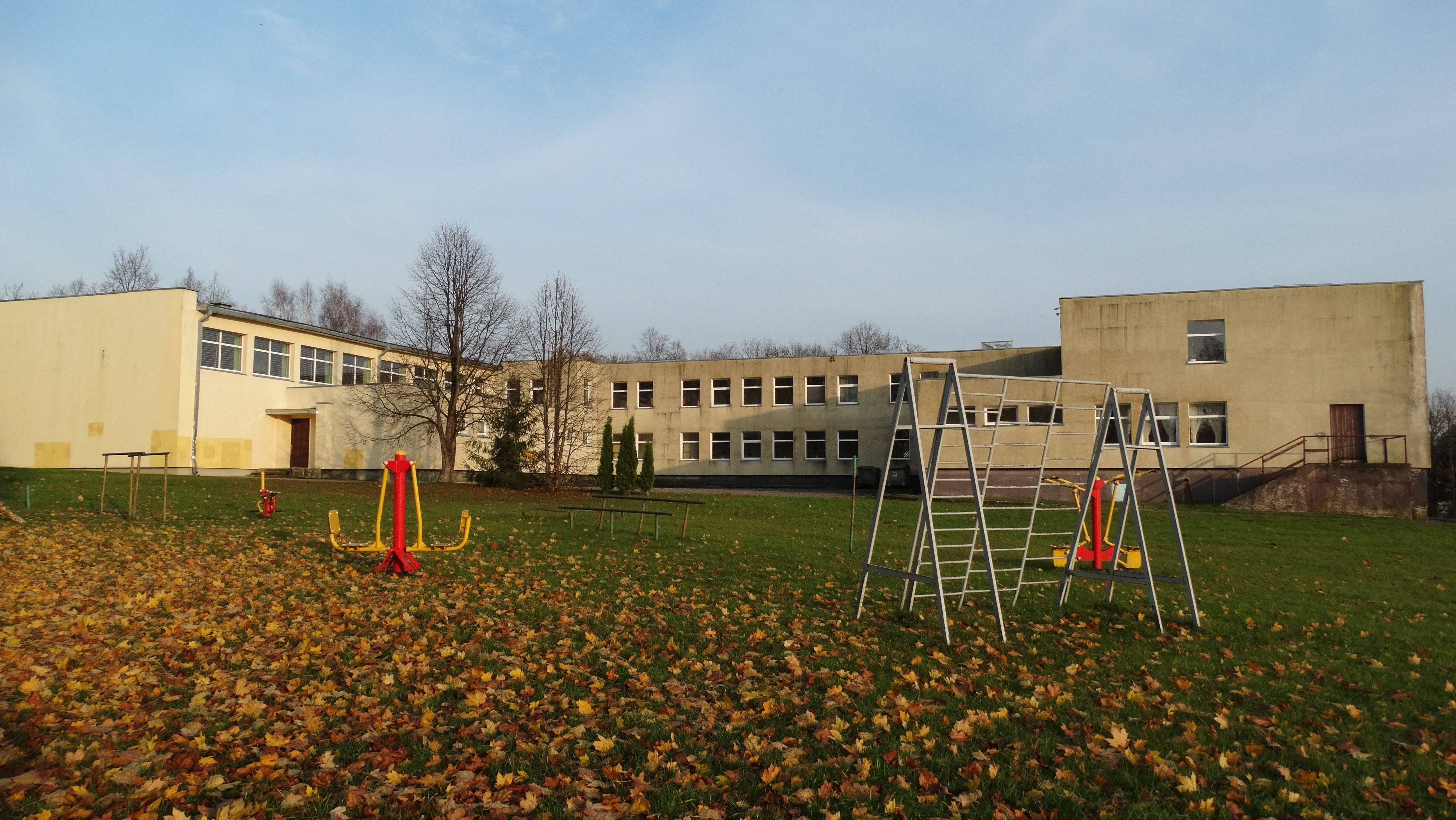 School, Natkiškiai, Pagėgiai Municipality, Lithuania